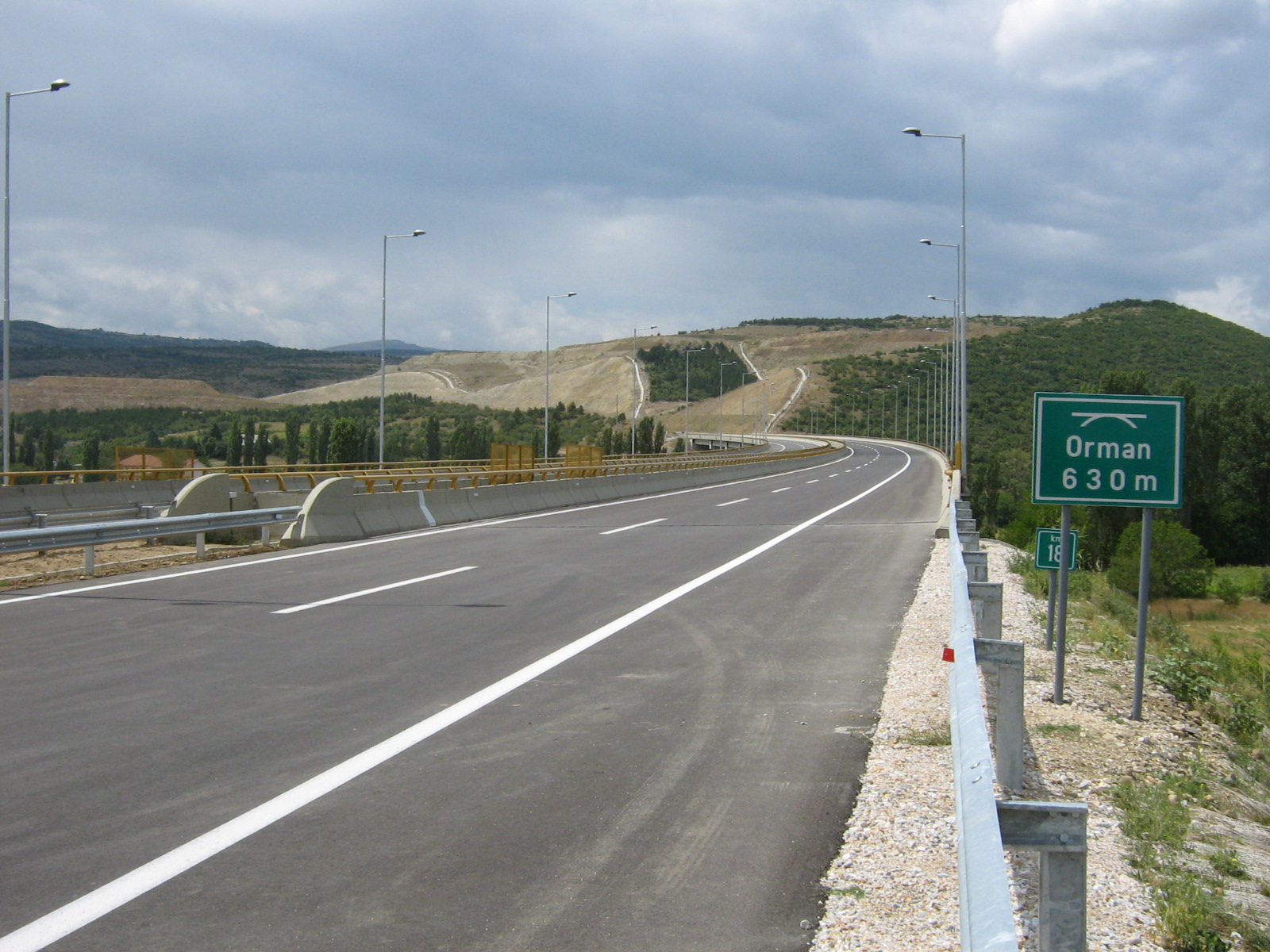 Macedonian Motorway M-4 near Volkovo and Orman